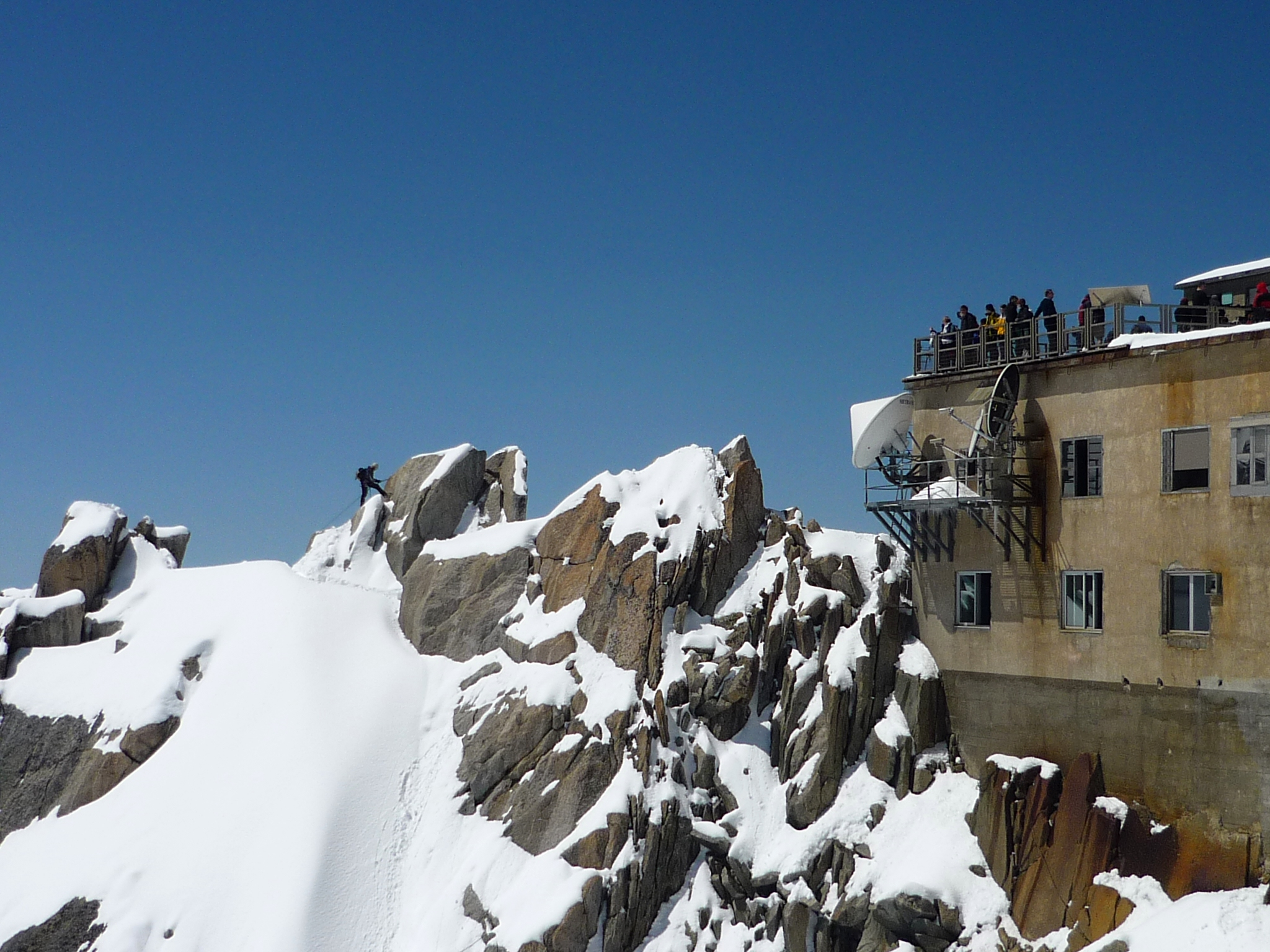 Aiguille du Midi, Chamonix, Haute-Savoie, France